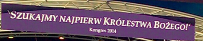 2014 Convention